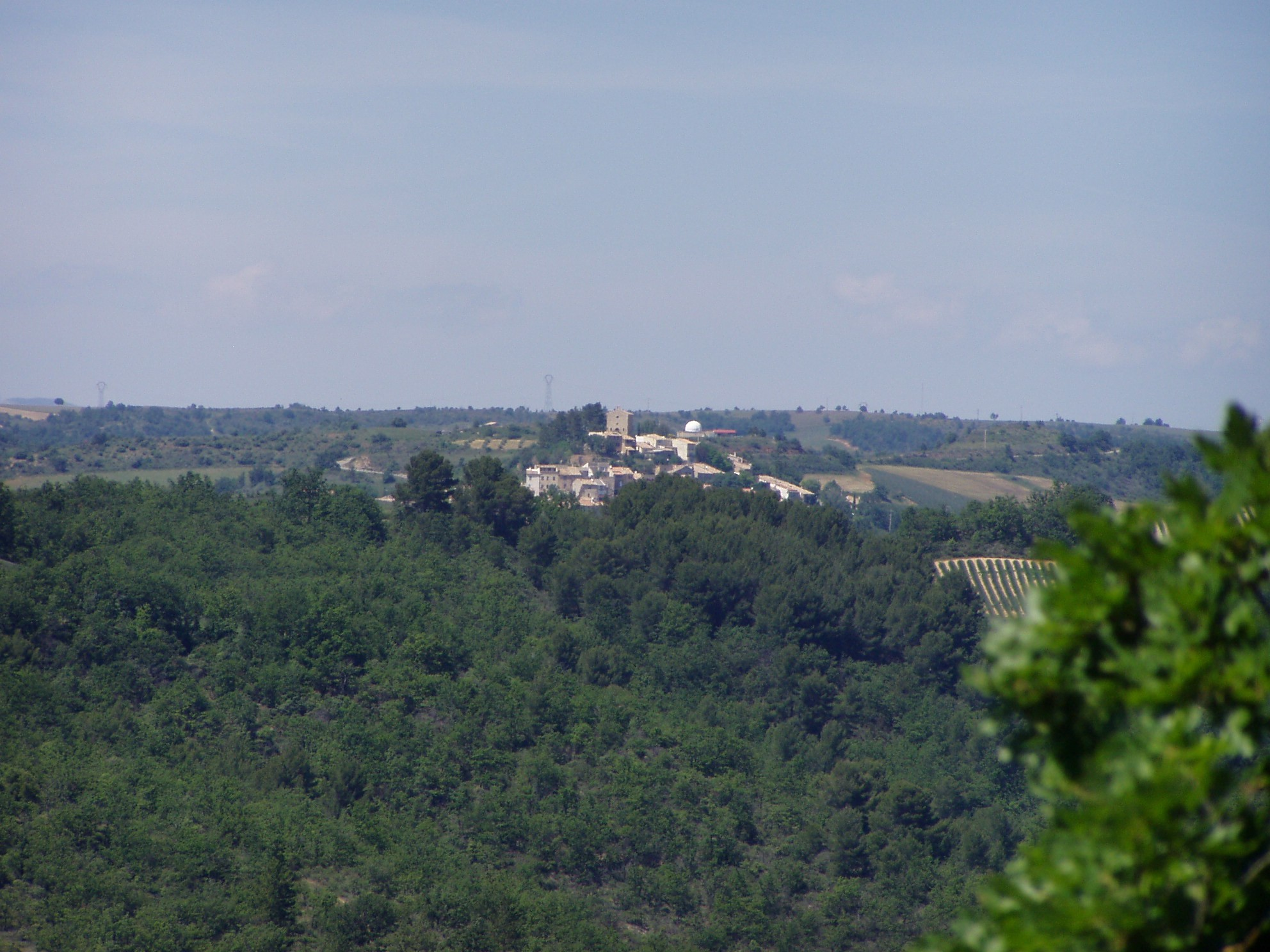 The village of Puimichel, seen of the village of Entrevennes